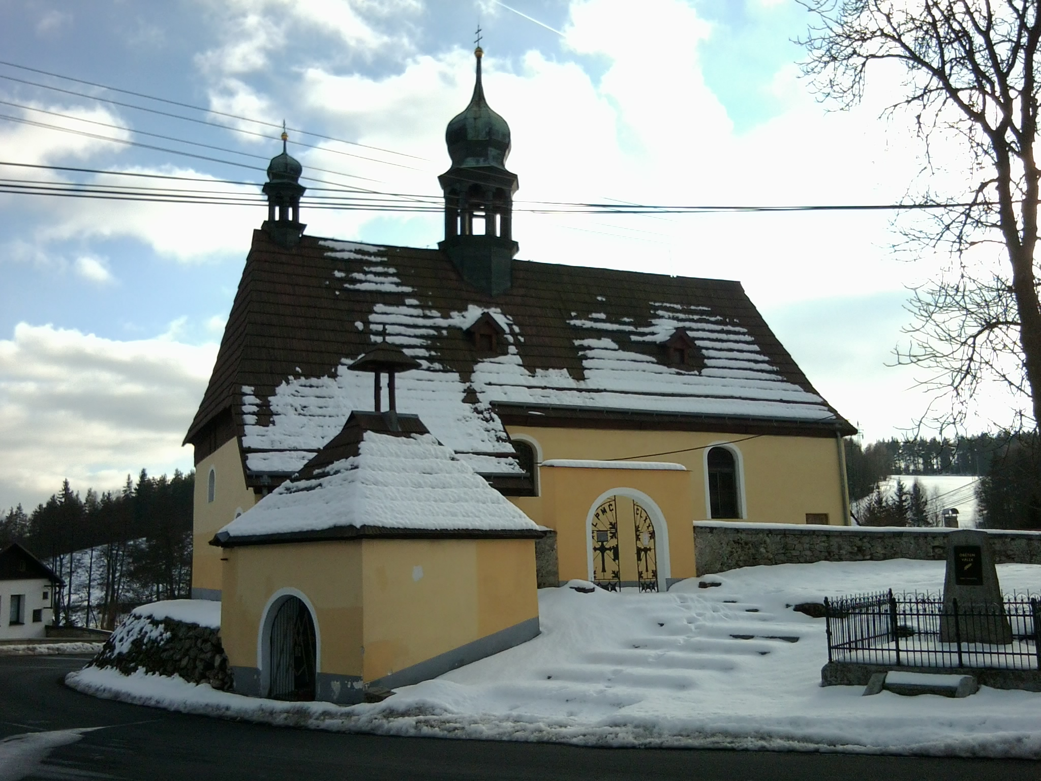 Church of St. Erhart, Tatrovice municipality, Czech republic